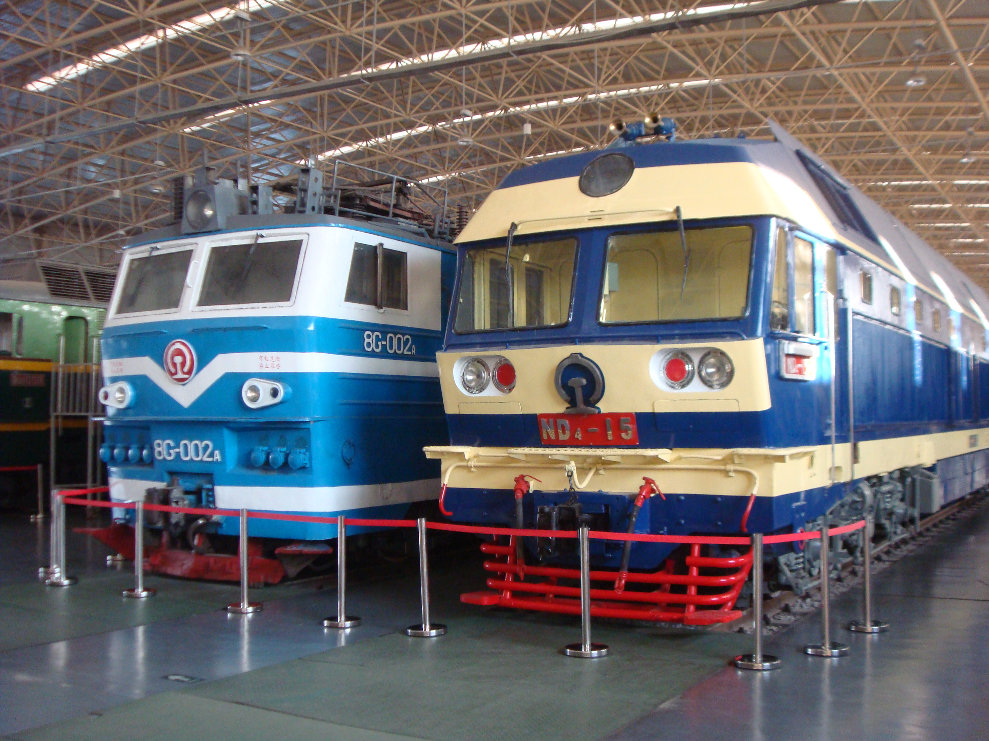 An twin-section 8G electric locomotive and a ND4 diesel locomotive in China Railway Museum, Chaoyang District, Beijing, China.